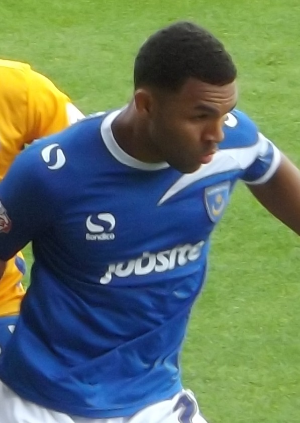 Andy Barcham. Image cropped from original at flickr.